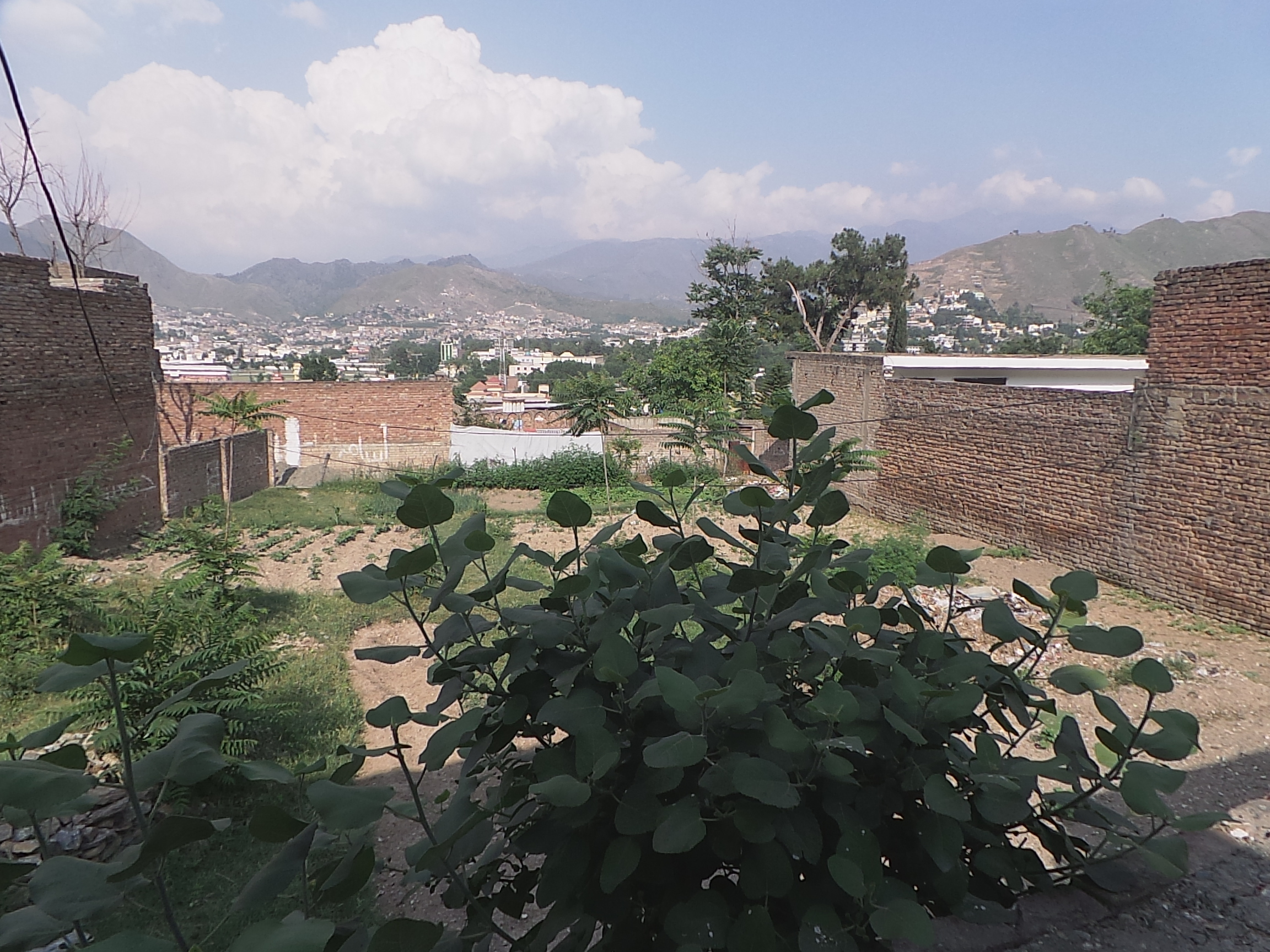 mingora side view from my home Amankot